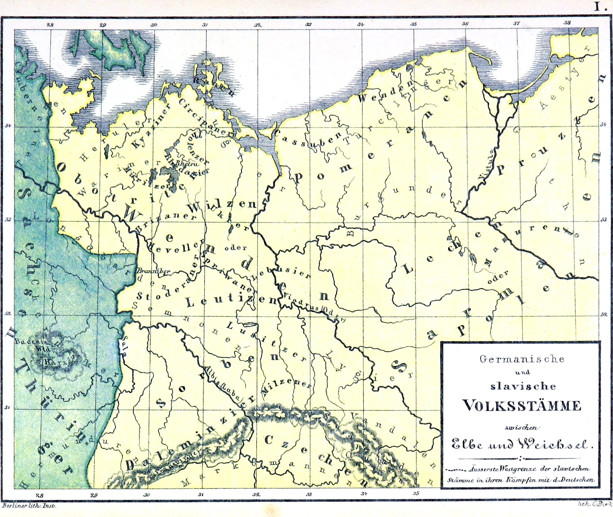 Image extracted from page 15 of Die Territorialgeschichte des brandenburgisch preussischen Staates, im Auschluss an zehn historische Karten übersichtlich dargestellt, Fix W. Original held and digitised by the British Library. Note: The colours, contrast and appearance of these illustrations are unlikely to be true to life. They are derived from scanned images that have been enhanced for machine interpretation and have been altered from their originals.